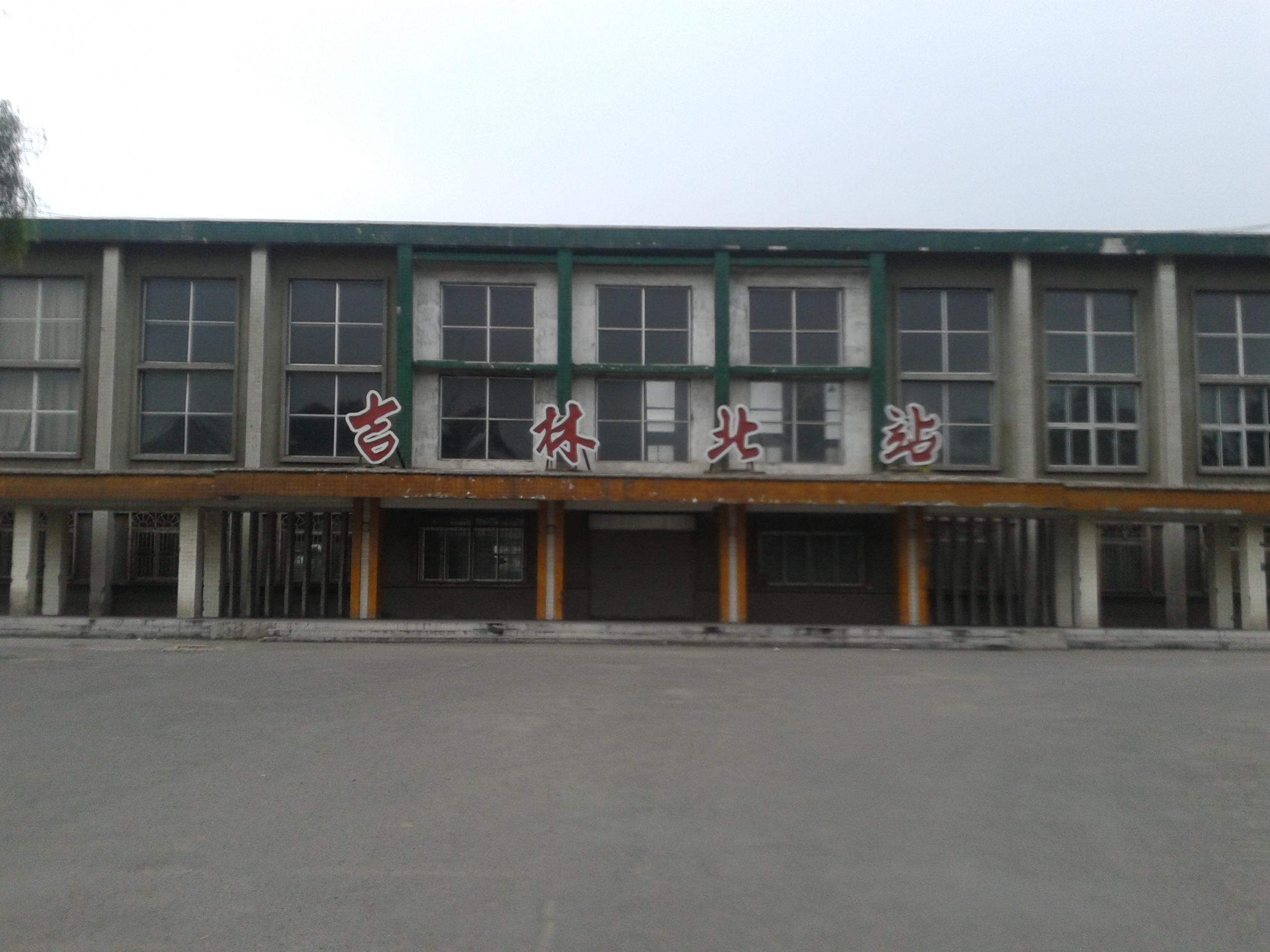 the waiting hall of jilinbei railway station